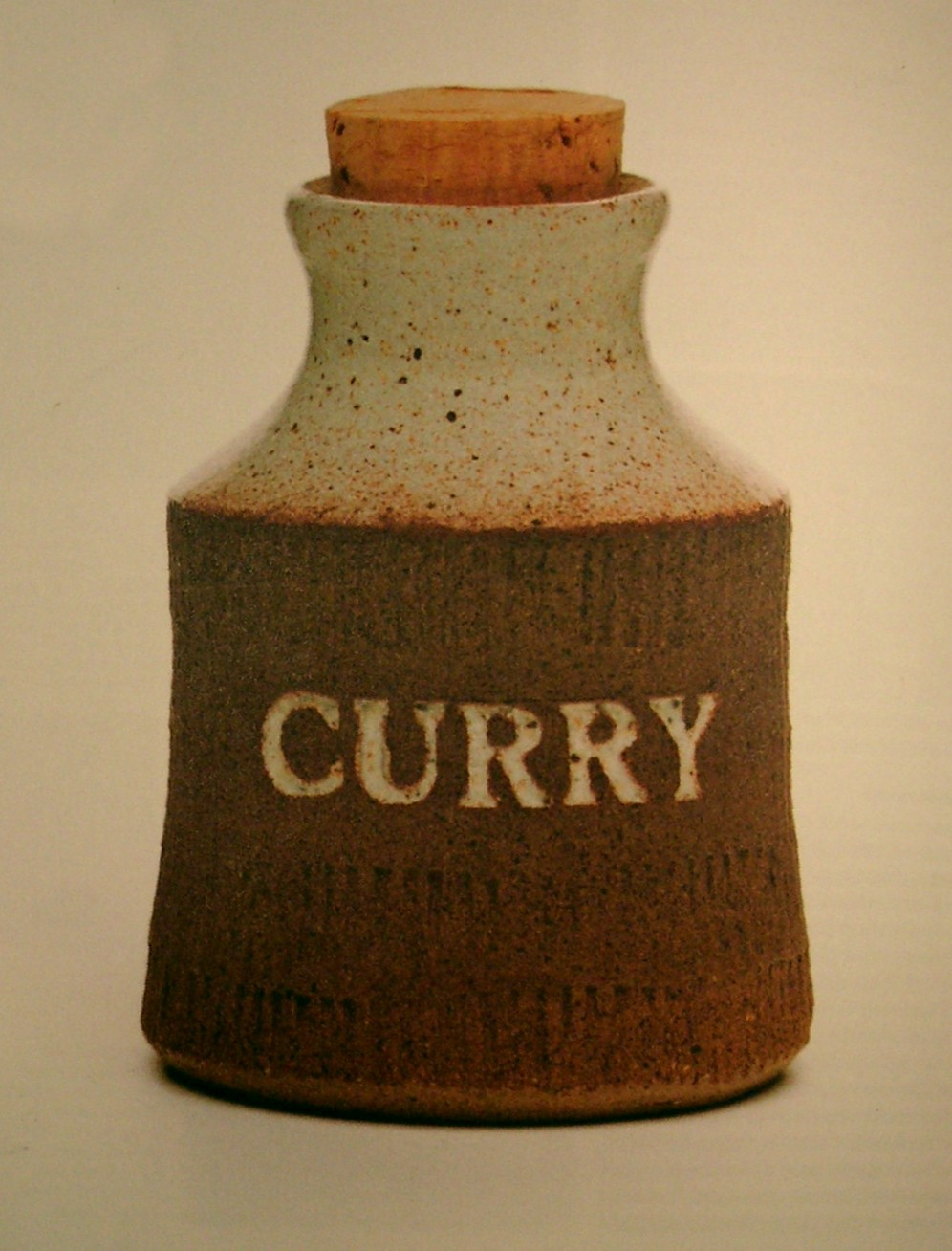 Signe Persson-Melin, kryddburk "Curry" 1955